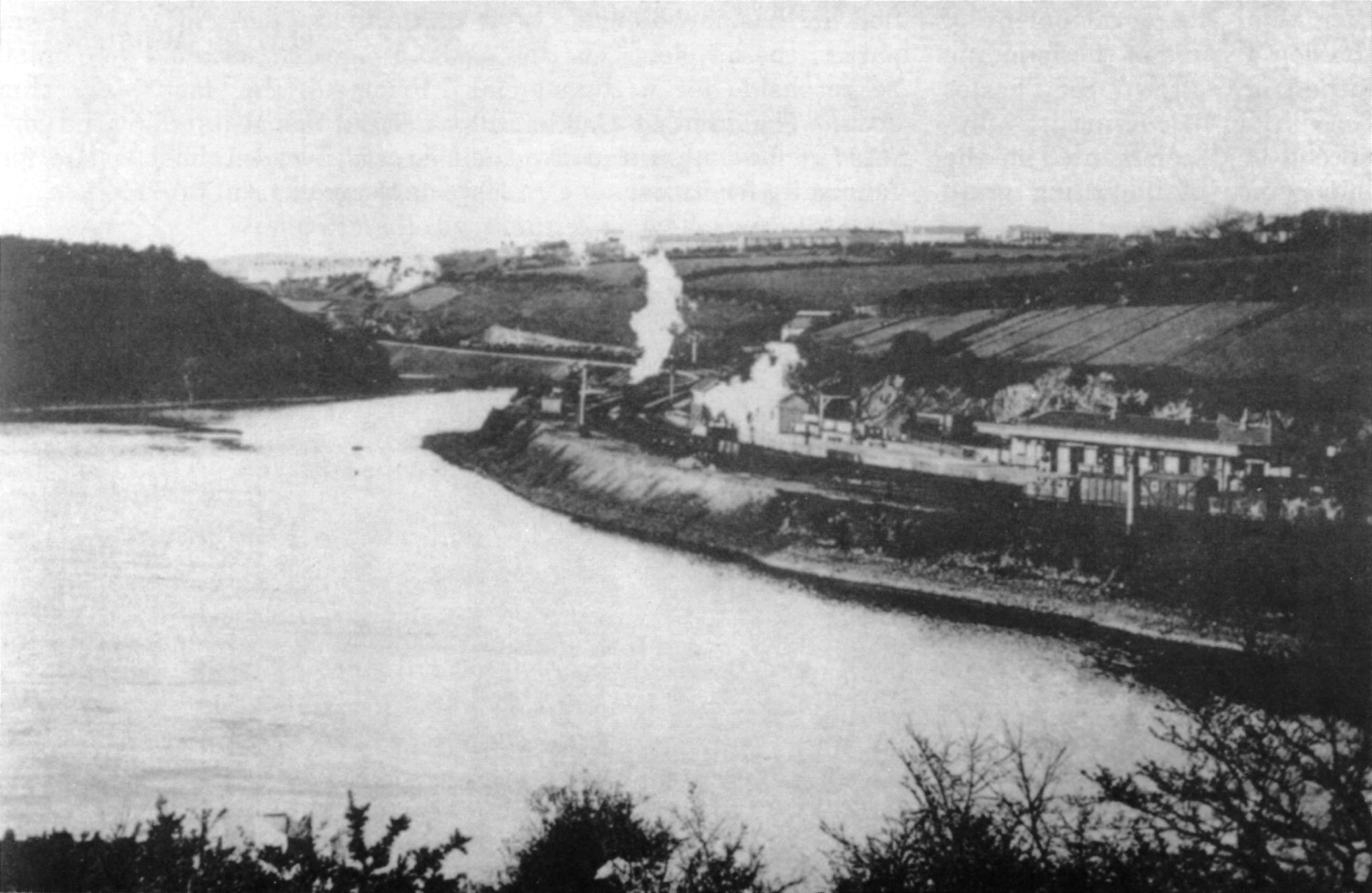 Milford Haven railway station, 1880s